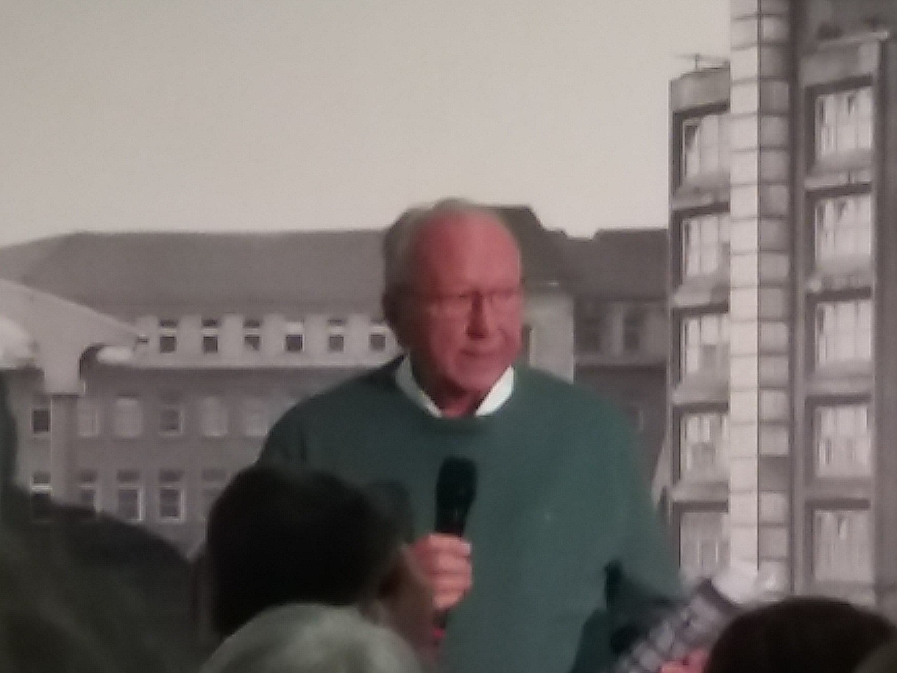 Photographer Thomas Billhardt opening an exibition in Berlin (2019)